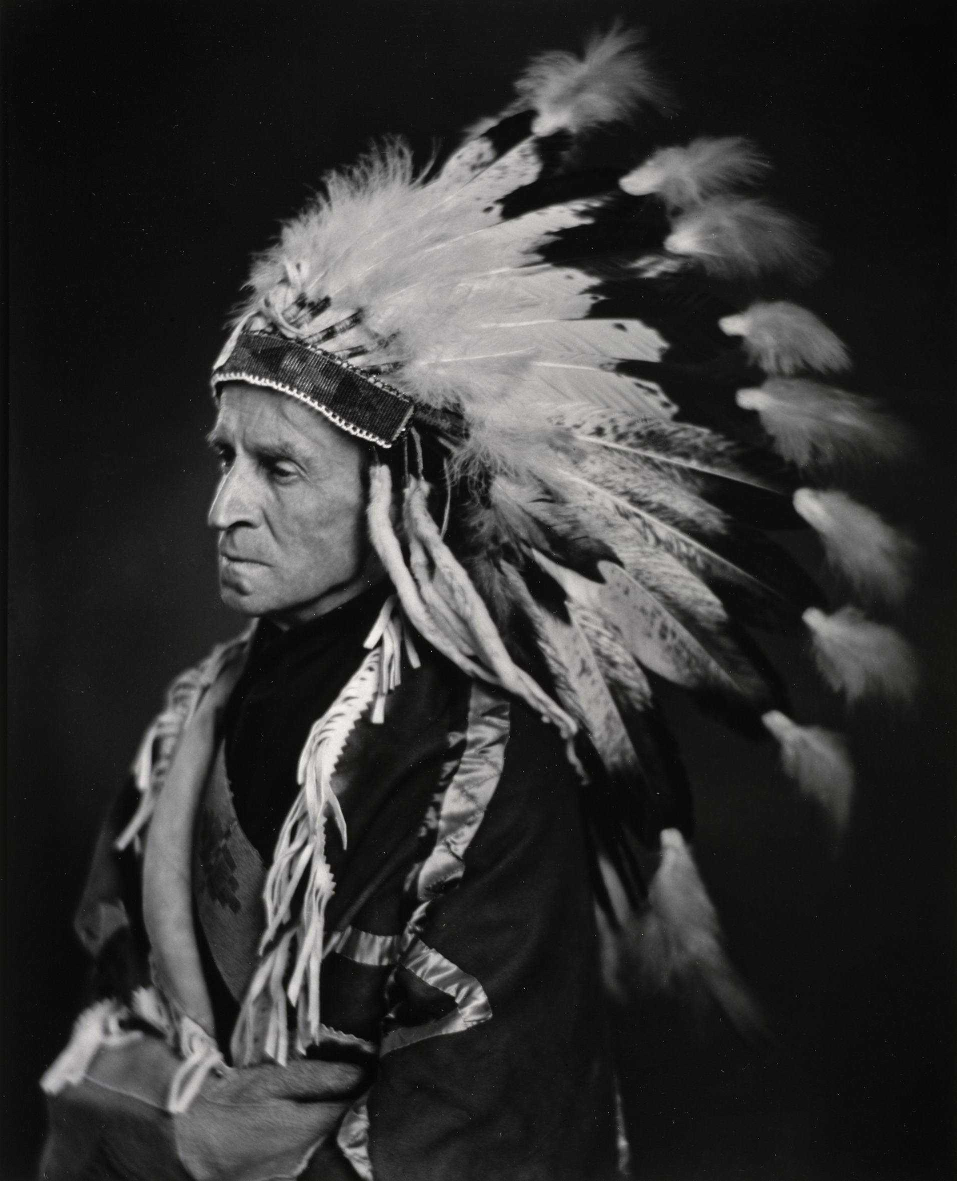 John Buchan, 1st Baron Tweedsmuir (1875-1940)